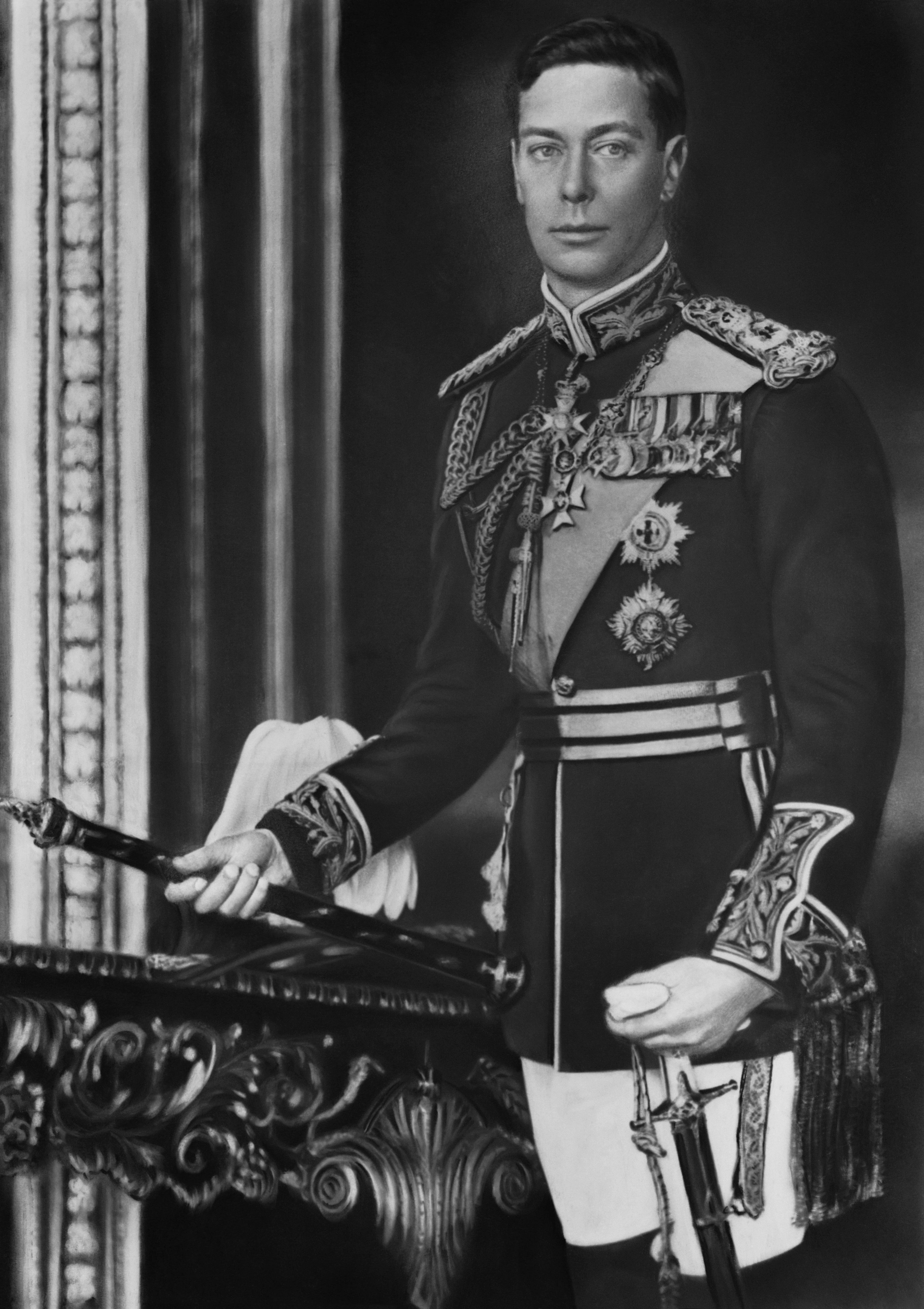 H.M. King George VI of the United Kingdom, digitally restored (rotated and removed dust and scratches).